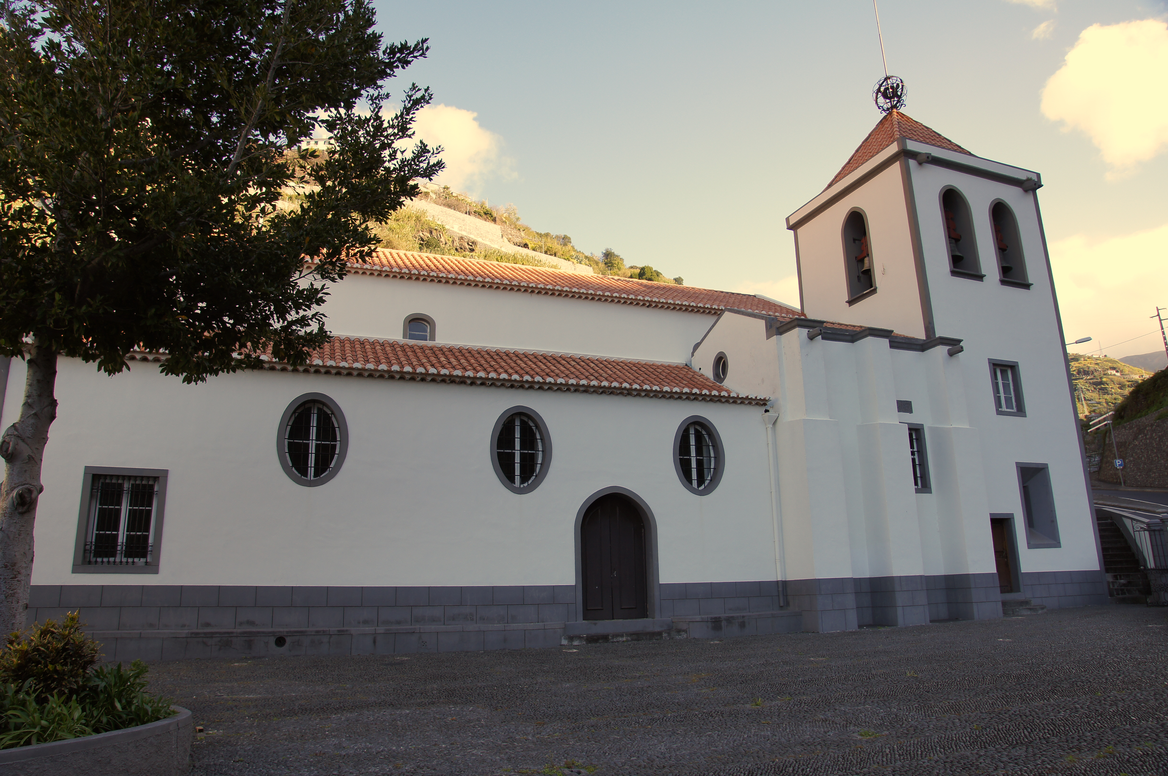 Church of Espírito Santo da Calheta